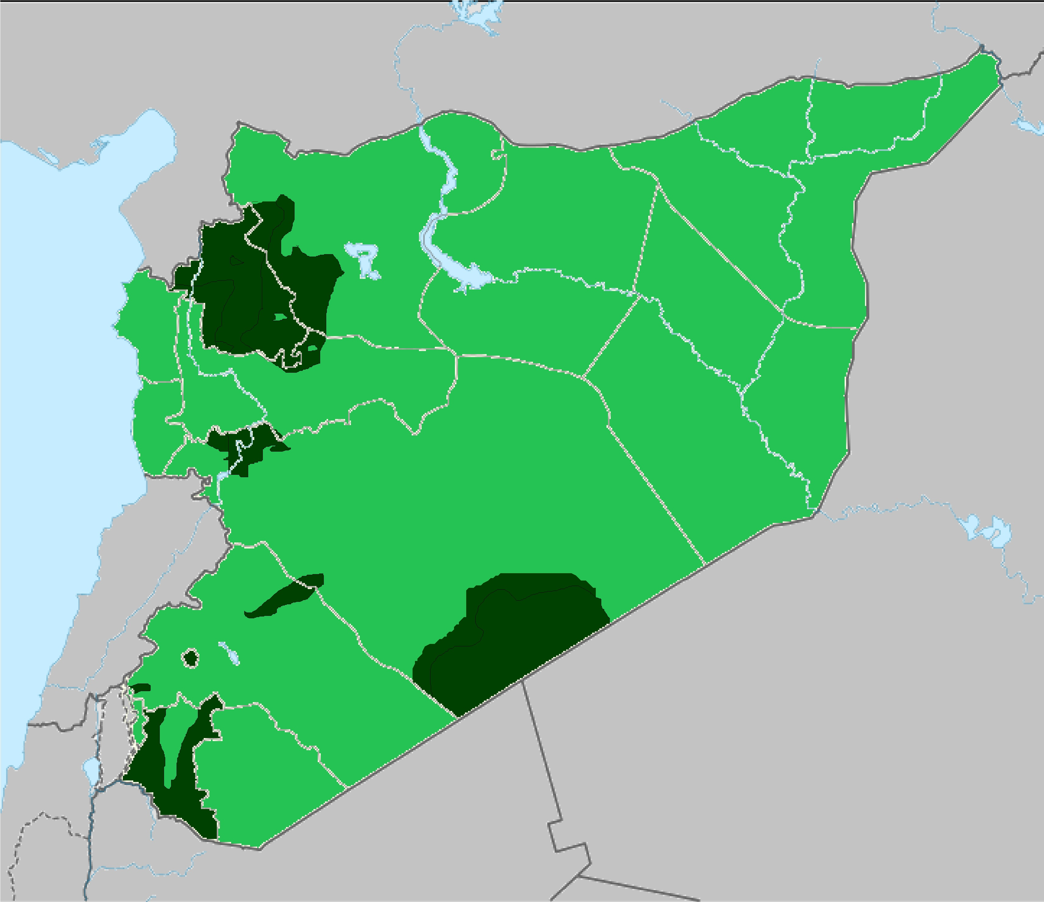 Opposition Syria Forces Territory in 2017